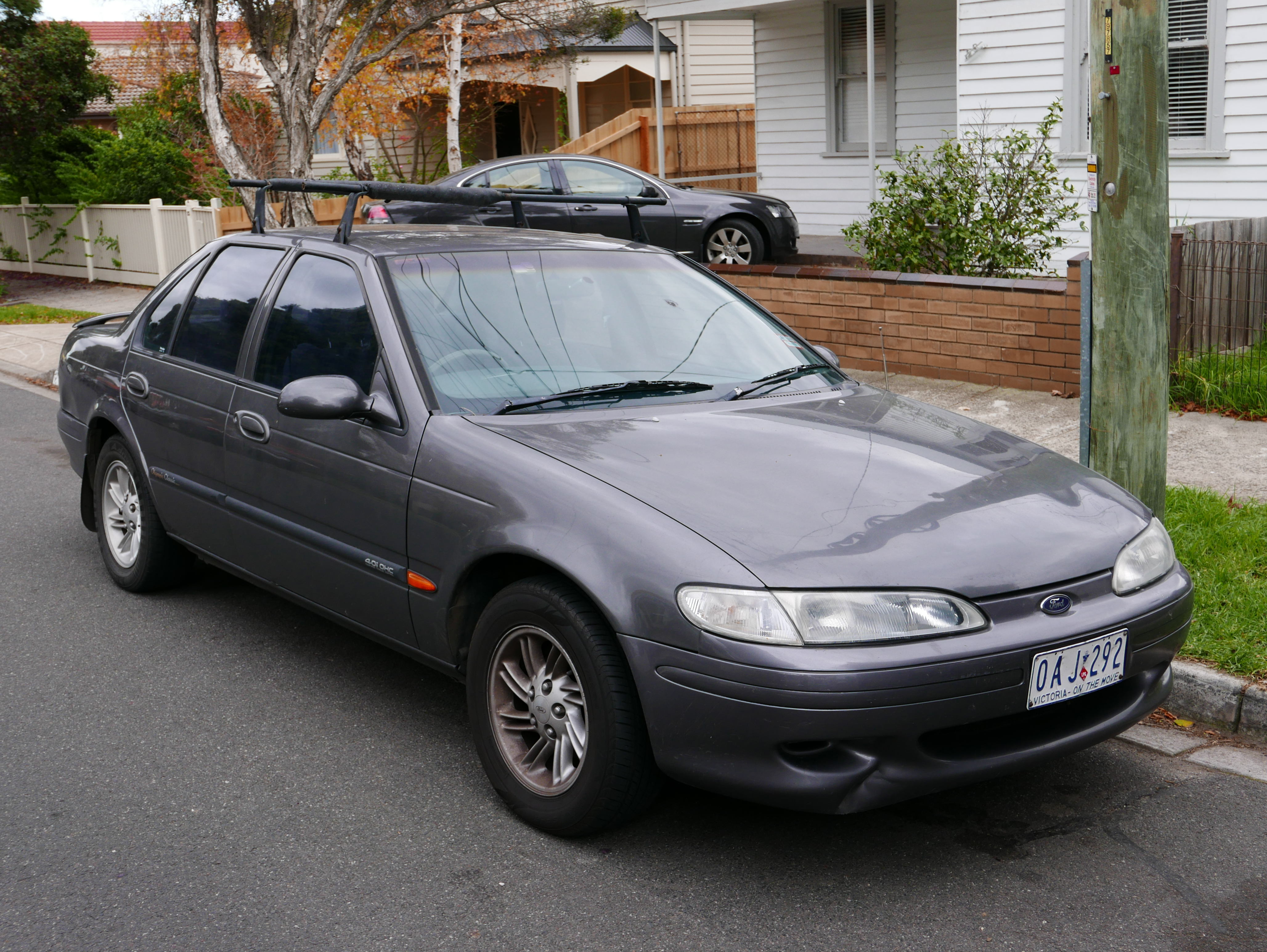 1996 Ford Falcon (EF II) Futura Olympic Classic sedan. Photographed in Northcote, Victoria, Australia. Vehicle registration enquiry results Jurisdiction Victoria Registration OAJ292 Chassis code 6FPAAAJGSWTL69917 Engine code HGSWTL69917 Compliance date 1996-09 Year of manufacture 1996